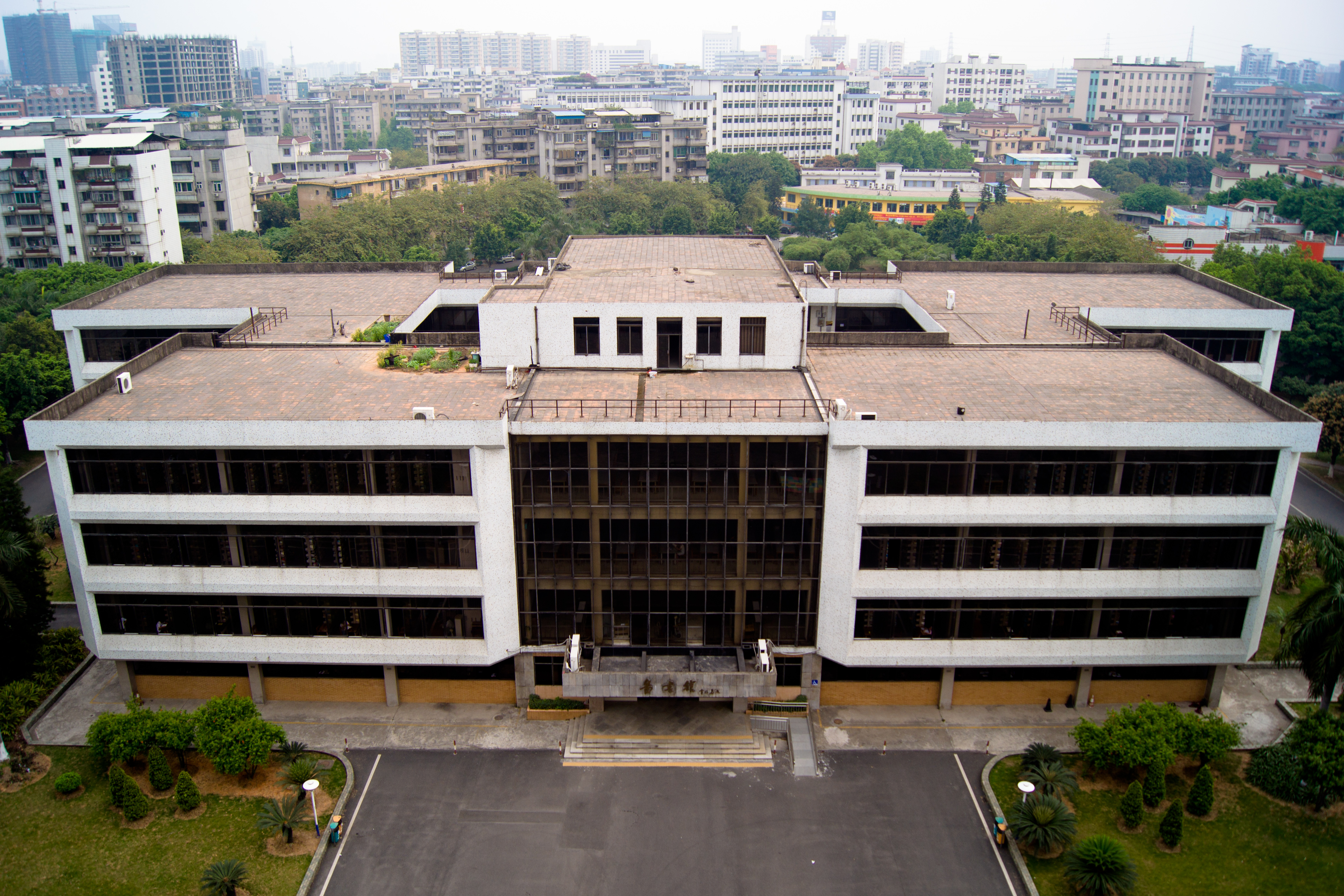 Library of Foshan University.